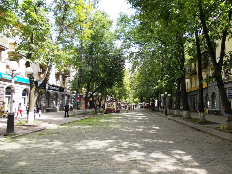 Jovtneva street in Poltava